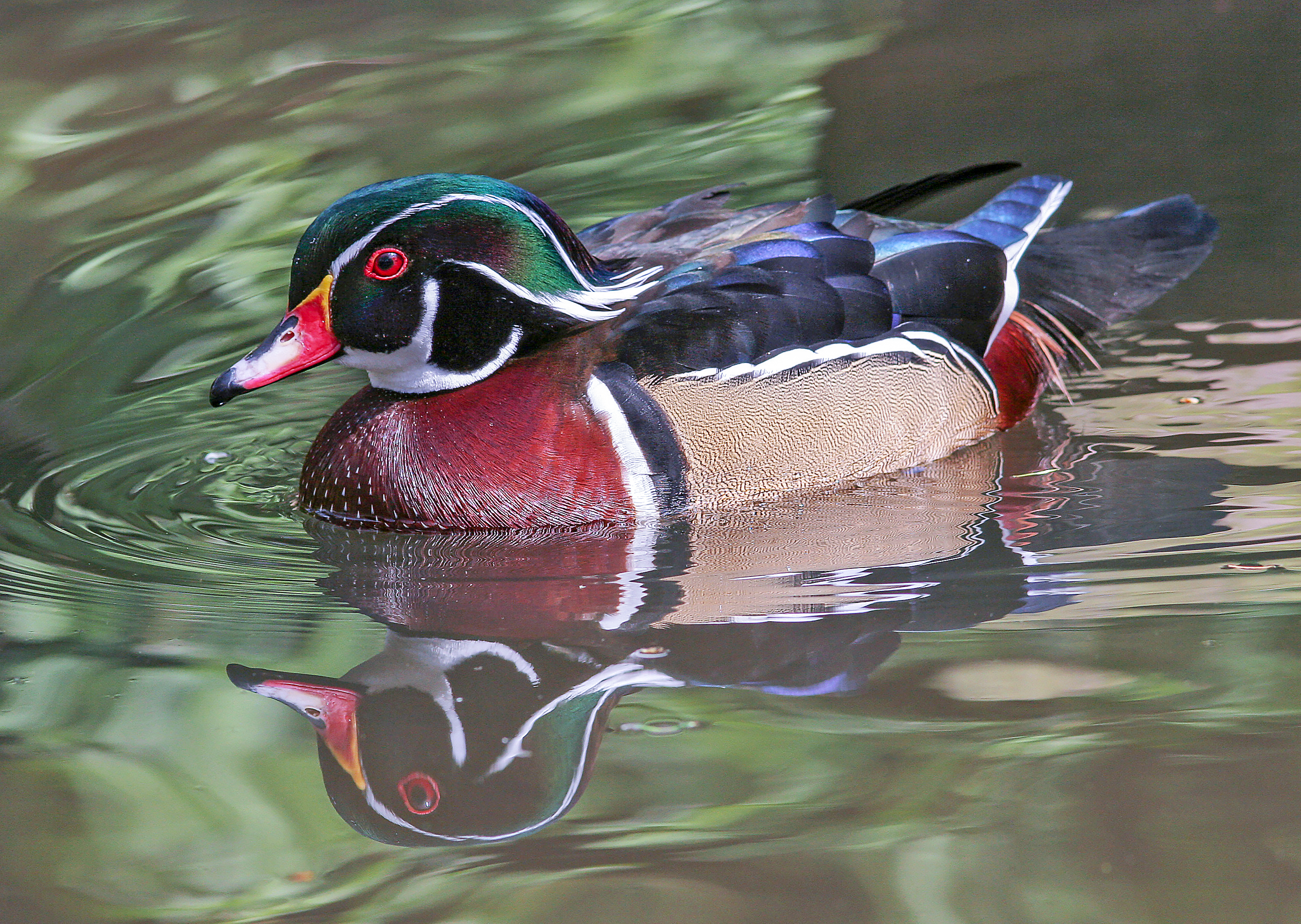 Wood Duck (also known as Carolina Duck) at Ouwehands Dierenpark, Rhenen, Netherlands.